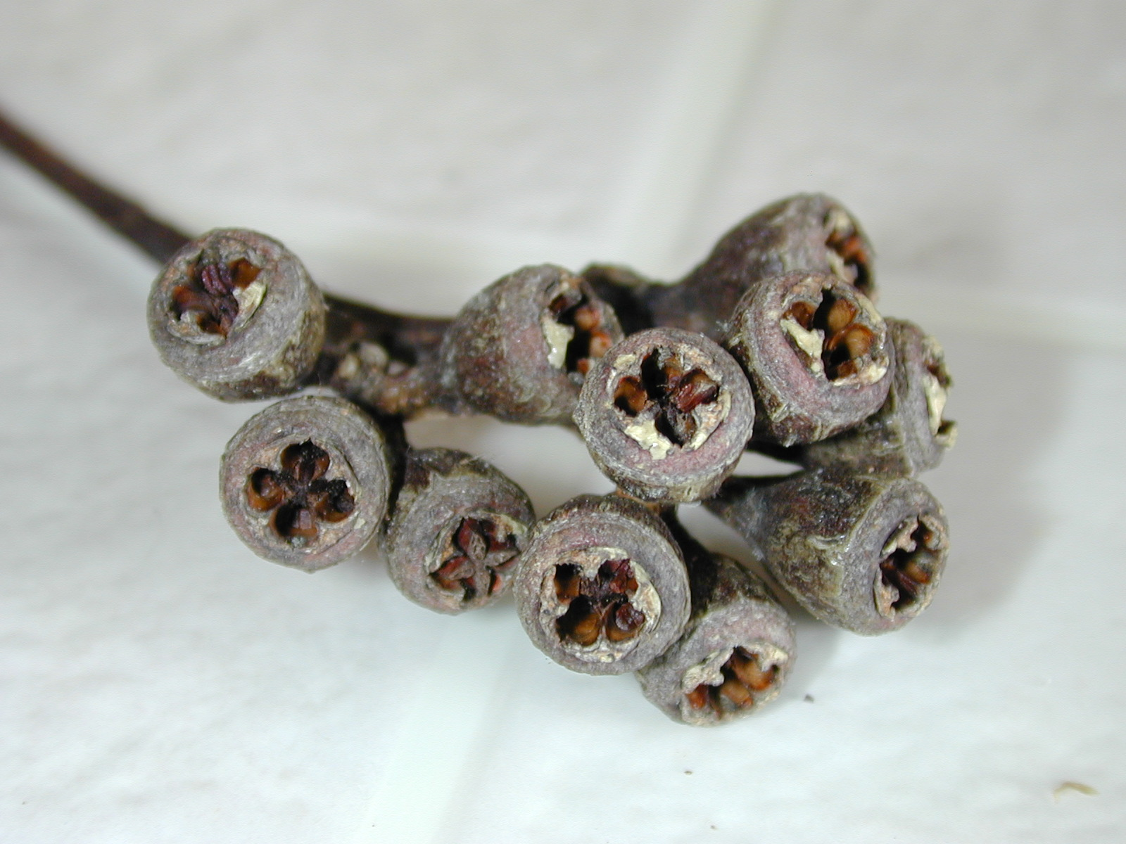 Eucalyptus rudis (fruit Western river red gums). Location: Maui, Hobdy collection